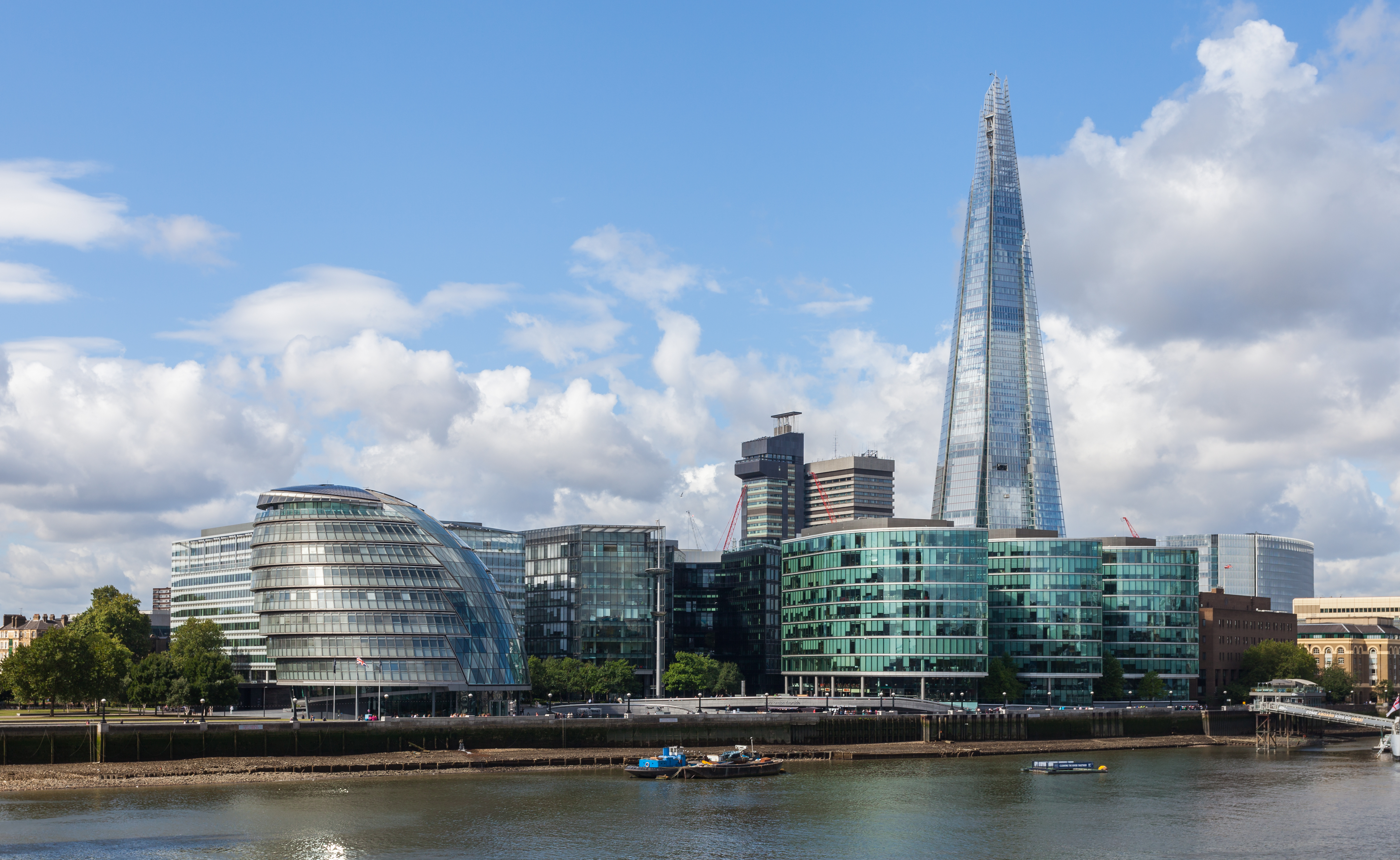 View of the City Hall (round building on the left), More London office complex and The Shard skyscraper, at the south bank of the Thames, Southwark district, Central London, England. The City Hall was opened in 2002 and comprises the Mayor of London and the London Assembly.